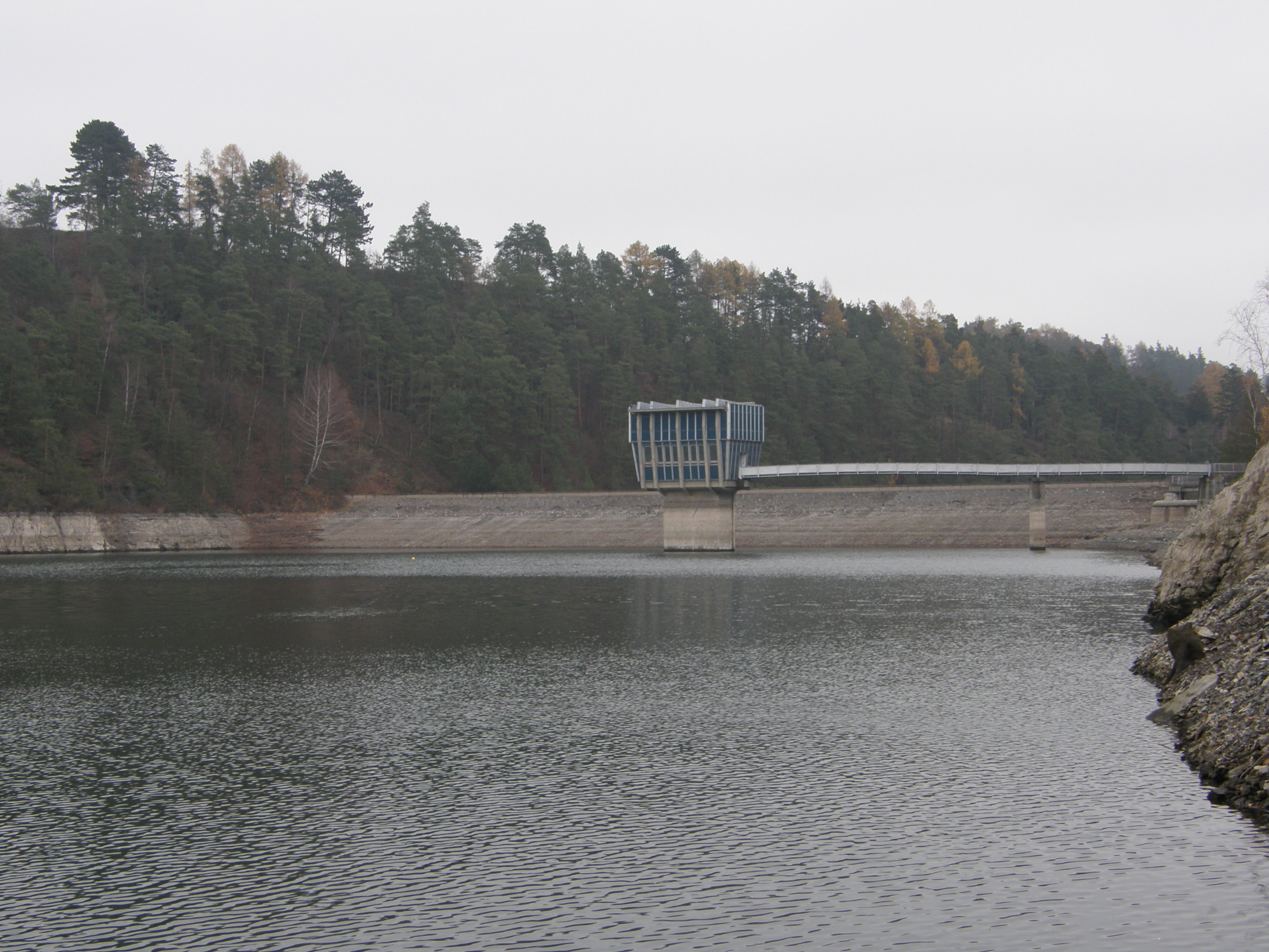 Letovice Dam